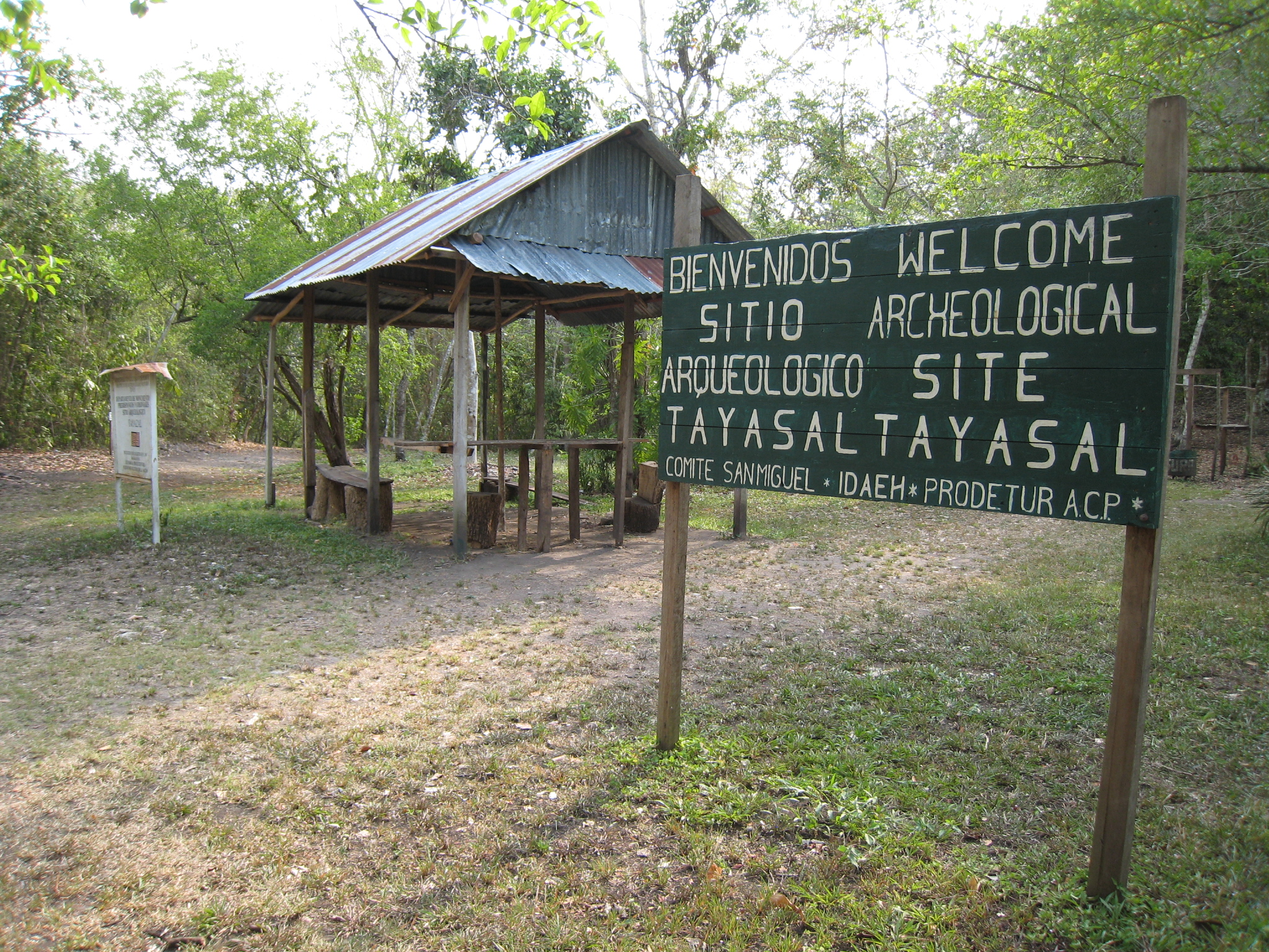 Tayasal Archaeological Site